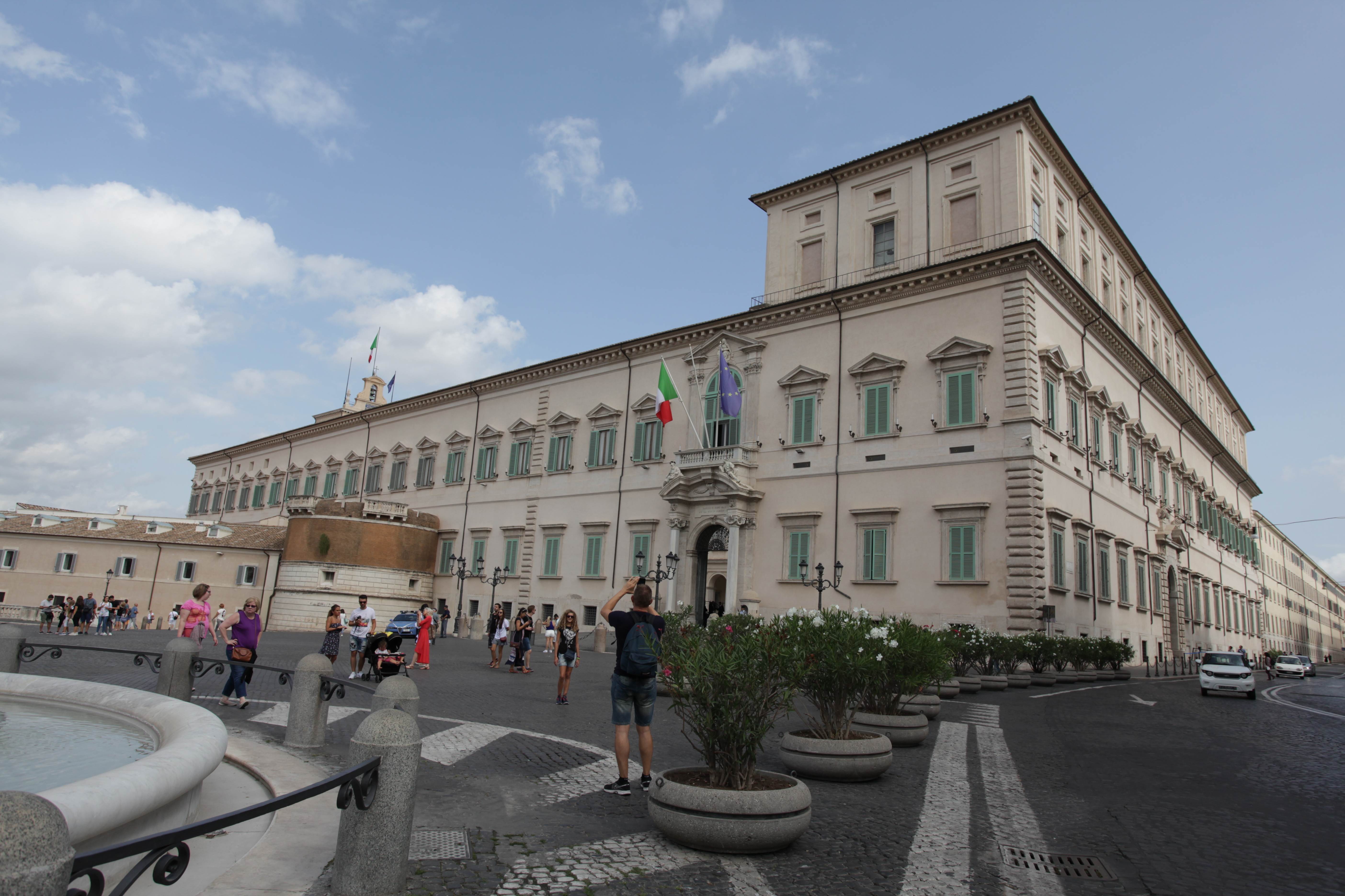 Quirinal Palace, seat of Italian President